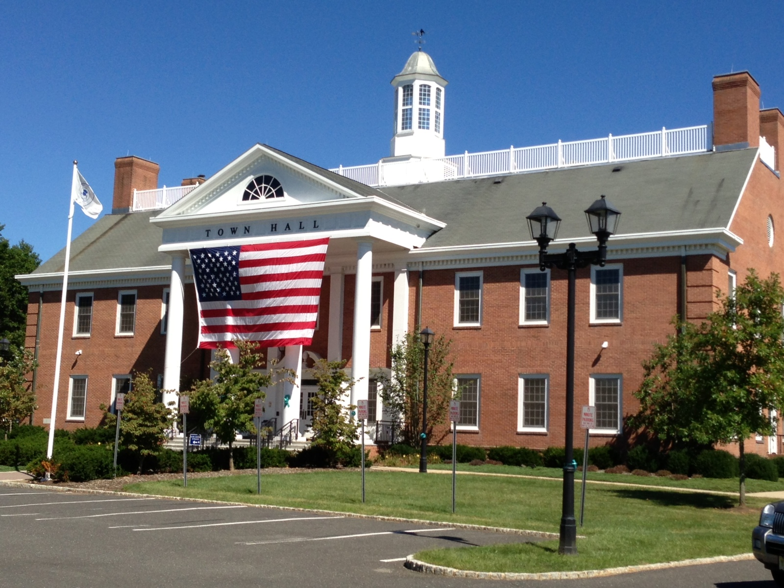 Town Hall in Freehold Twp, NJ, located on the corner of Schank Rd and Stillwells Corner Rd.